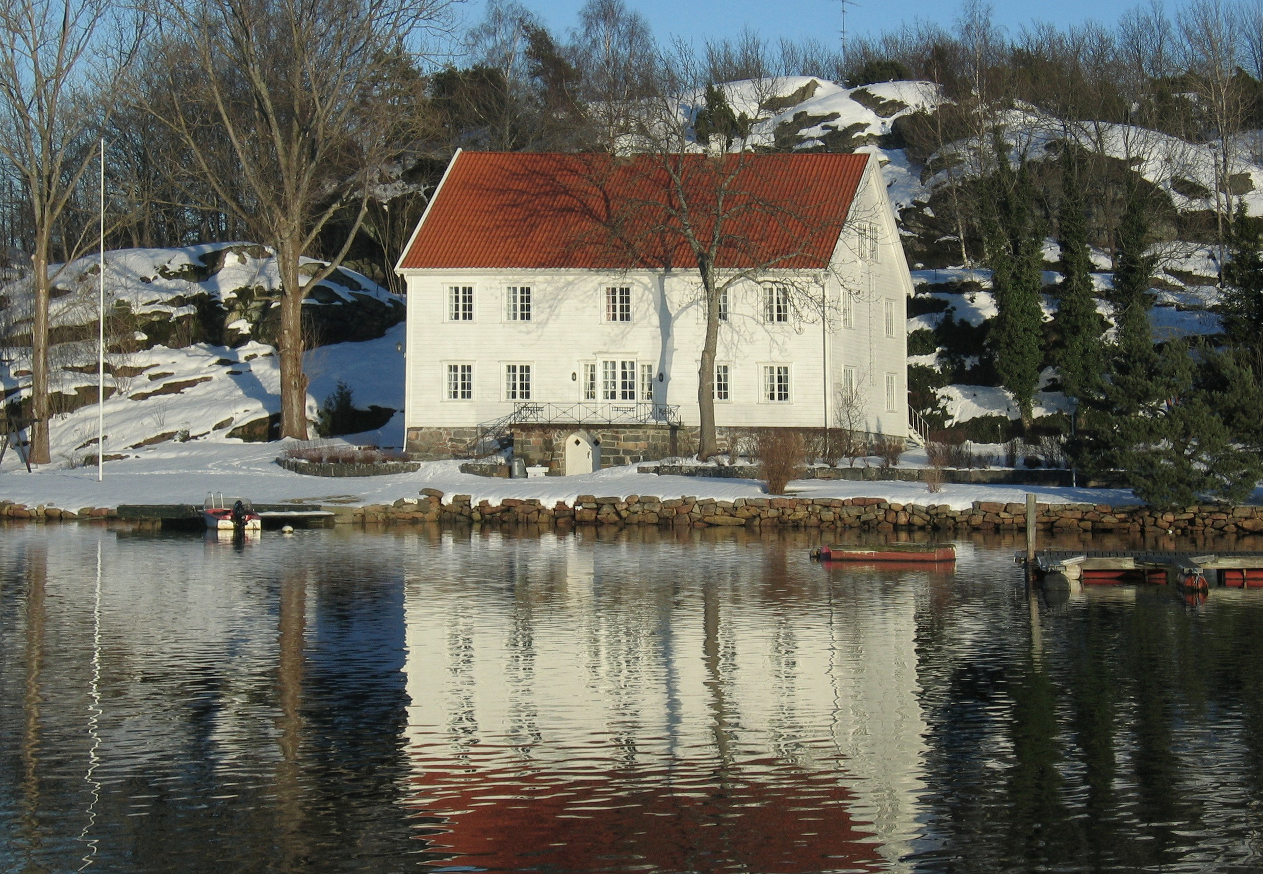 The Strandhouse by Vrengen sound at Island Tjøme in Norway, protected by law.